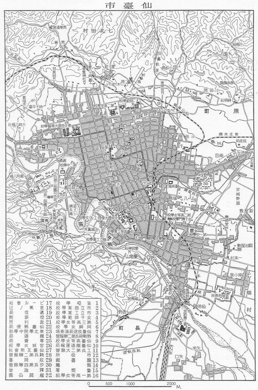 Sendai map circa 1930